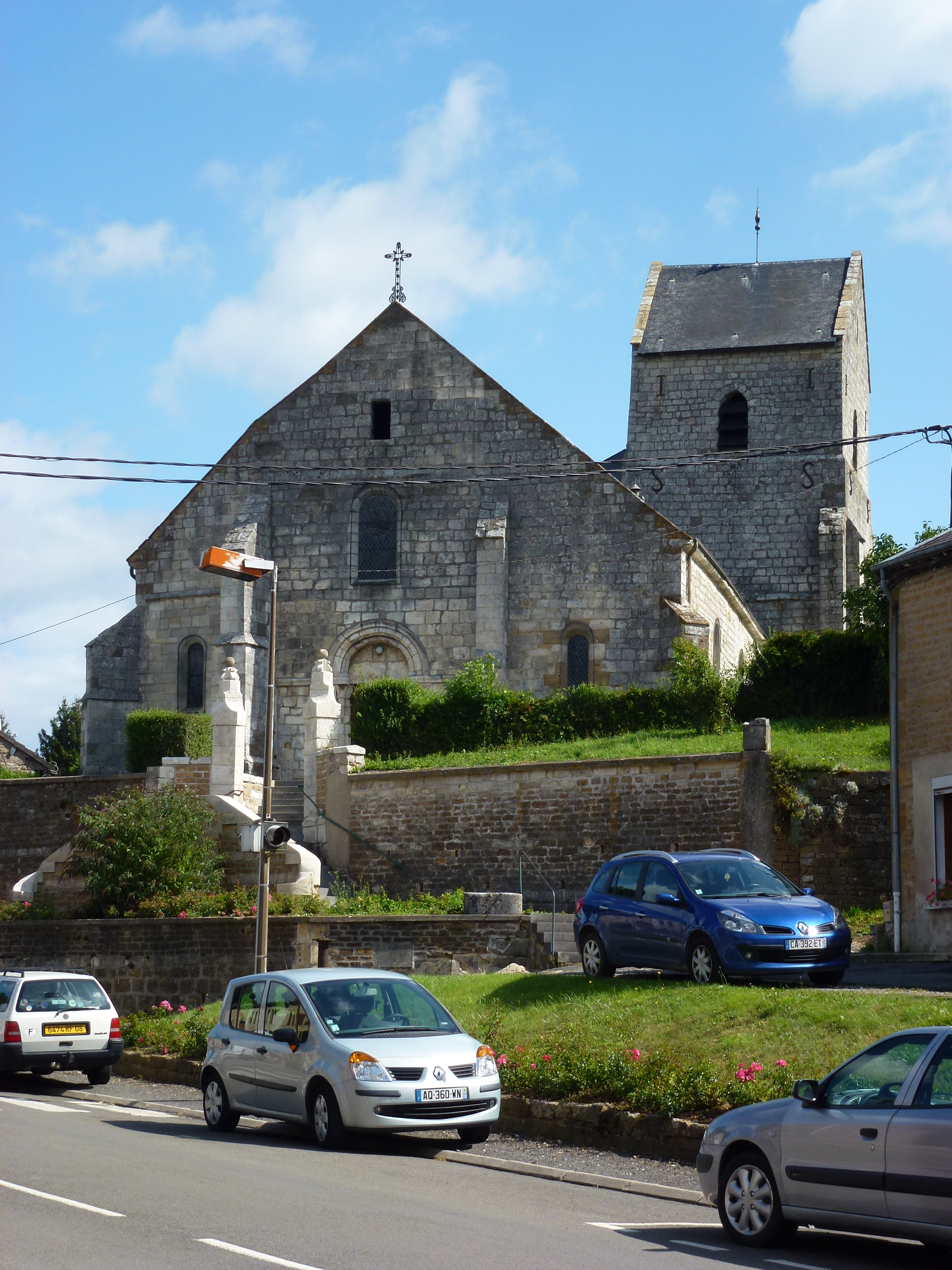 Poix-Terron (Ardennes) église Saint-Martin